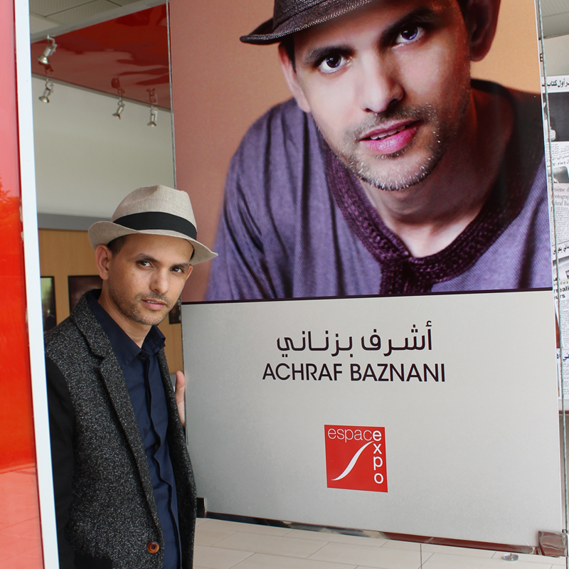 Achraf Baznani - Inside my Dreams Solo Exhibition